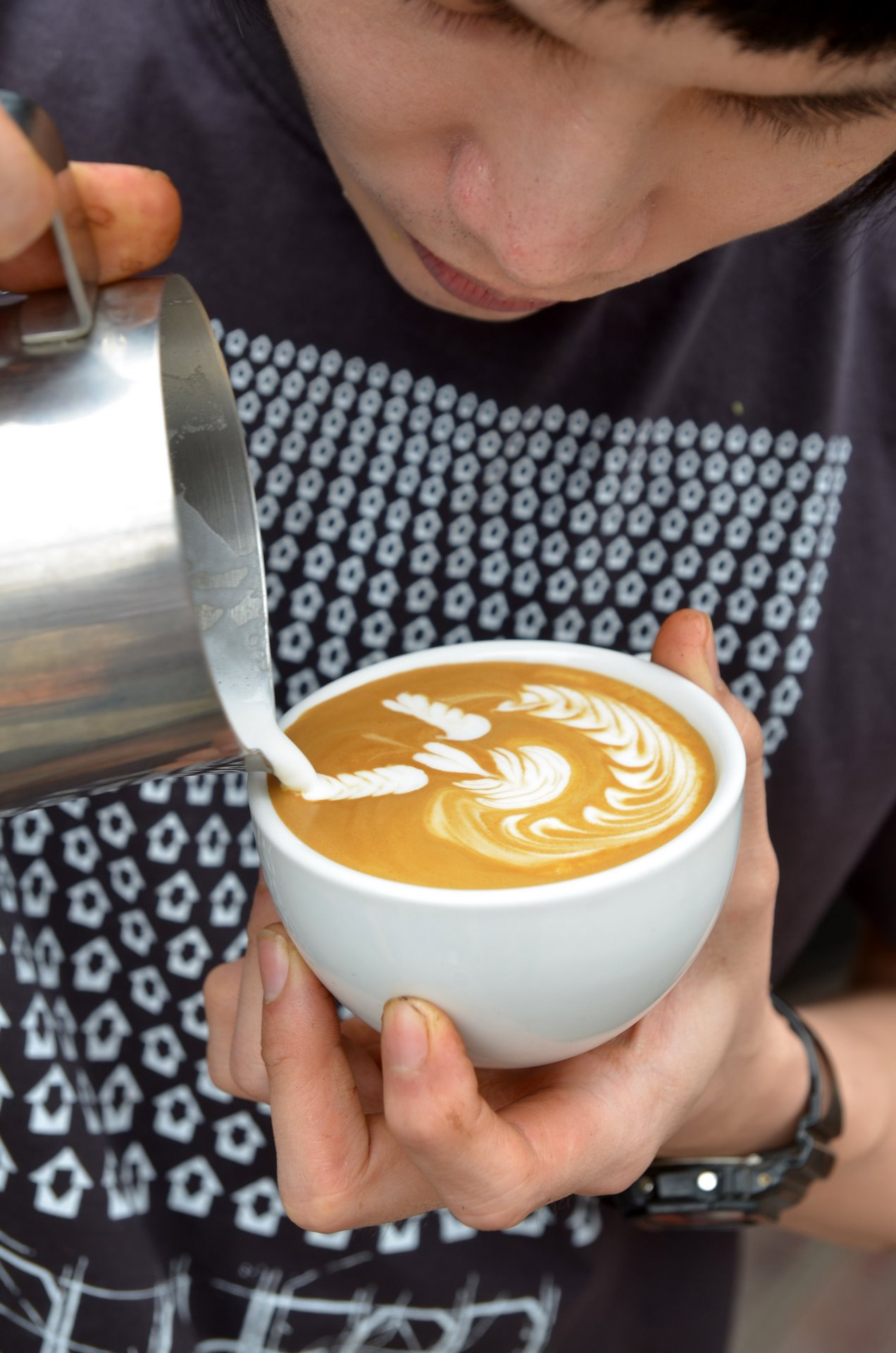 Free pouring of latte art at Doppio Ristretto in Chiang Mai. The artist won several championships in Australia and came in 6th at the world championship in 2011. This is his signature latte art: angel surfing on waves.